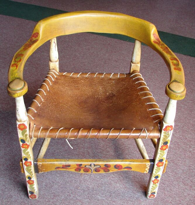 One of four original Mason Monterey Horseshoe-back chairs at the Oregon Caves' Chateau with the original finish. Original finish color is Straw Yellow and Straw Ivory with polychrome floral motif. Original slung leather seat